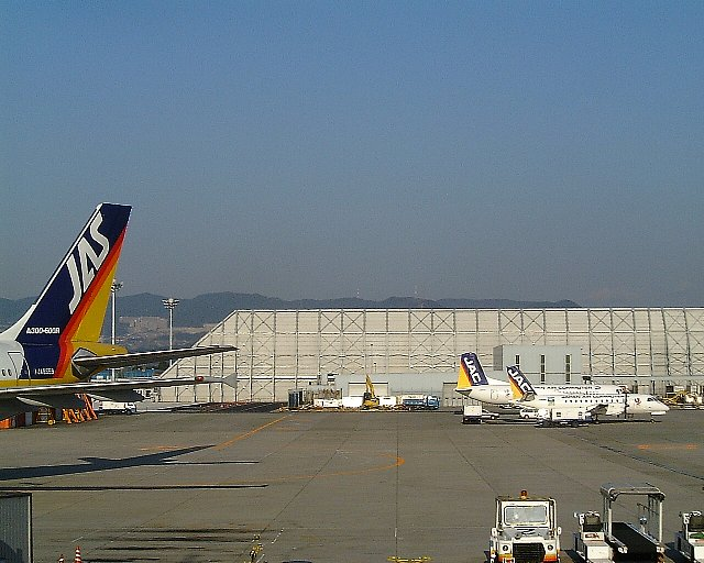 left; JAS|Japan Air System; Airbus A300-600R, and right; Japan Air Commuter; YS-11 aircrafts. - at Osaka International Airport